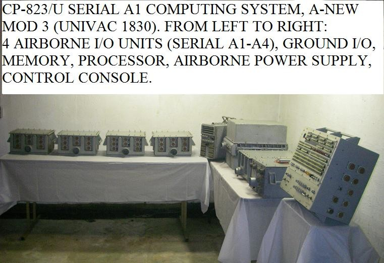 The CP-823/U (Univac 1830) Engineering prototype digital computing system for the Lockheed P3 Orion.